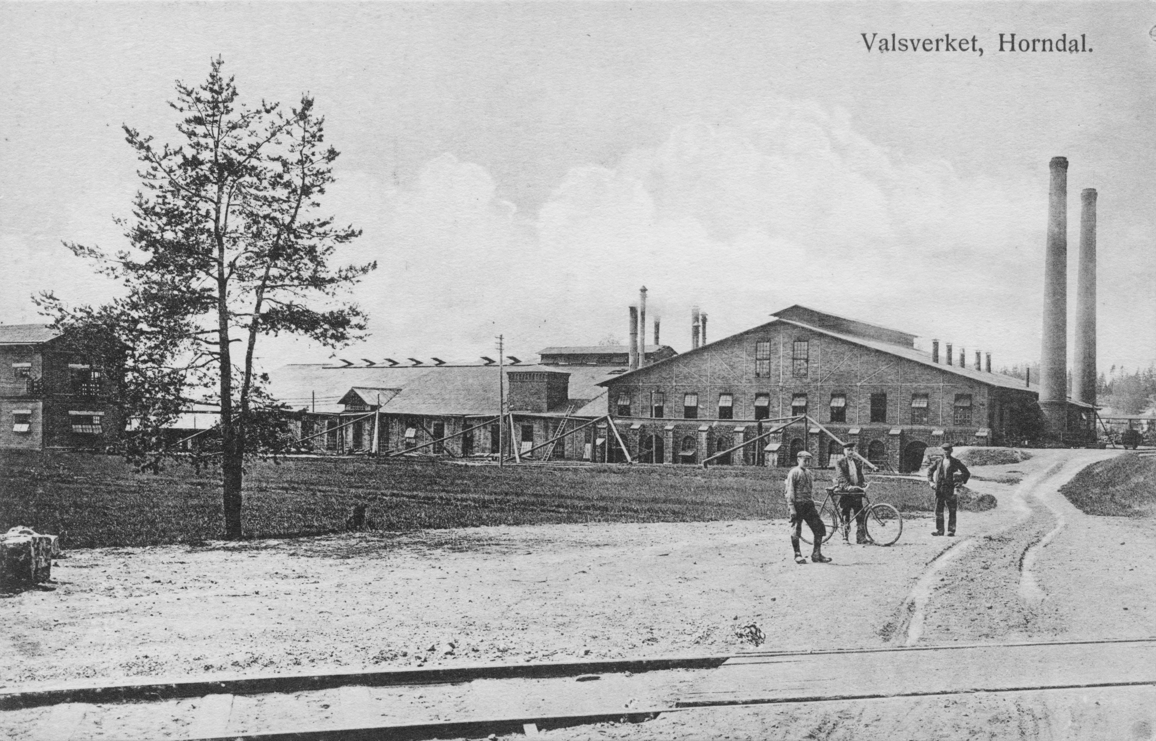 Horndals bruk, Avesta Municipality, Sweden. The ironworks. Rolling mills and steel mill.